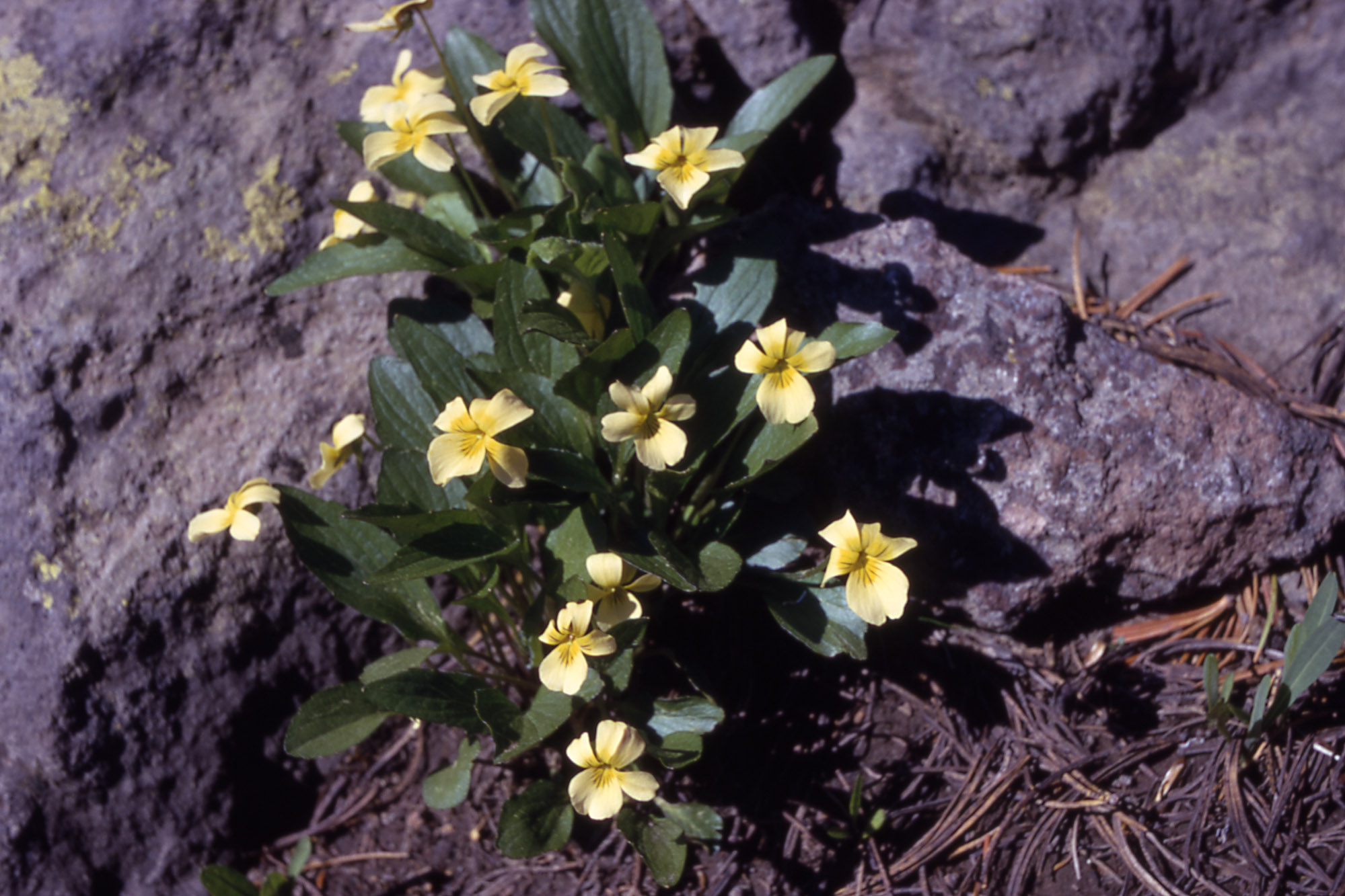 Viola praemorsa in Yellowstone National Park. NPS photo, no copyright.